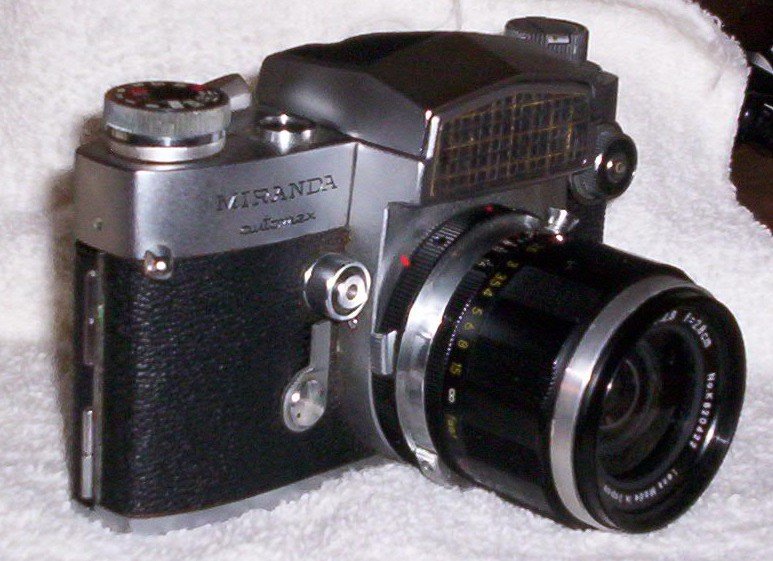 Miranda Automex